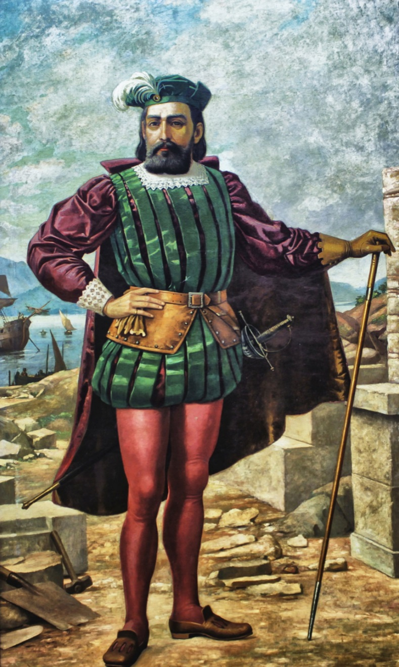 Depicted person: Brás Cubas